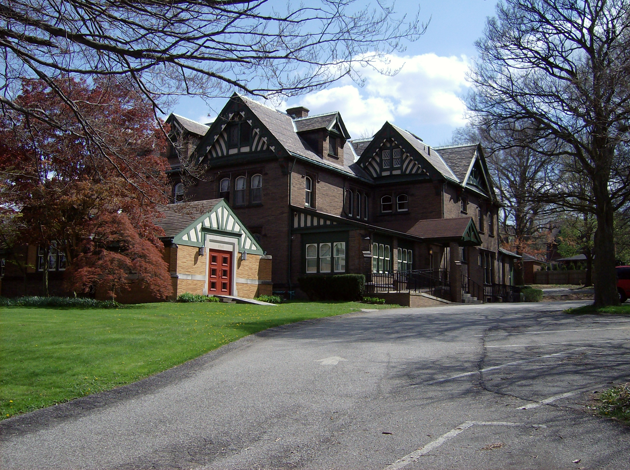 View of the Reformed Presbyterian Theological Seminary in Point Breeze, Pittsburgh, Pennsylvania, United States. Address 7418 Penn Ave.